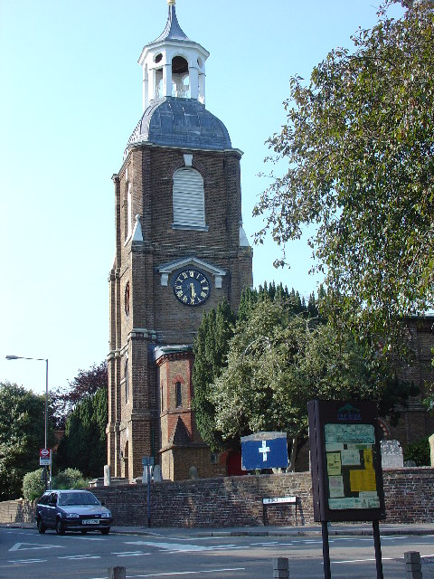 West tower of St Mary's parish church, Sunbury-on-Thames, Middlesex, seen from the south